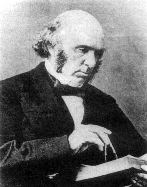 Nathaniel Wathen (1816-1872) - British civil engineer and President of the Royal Meteorological Society